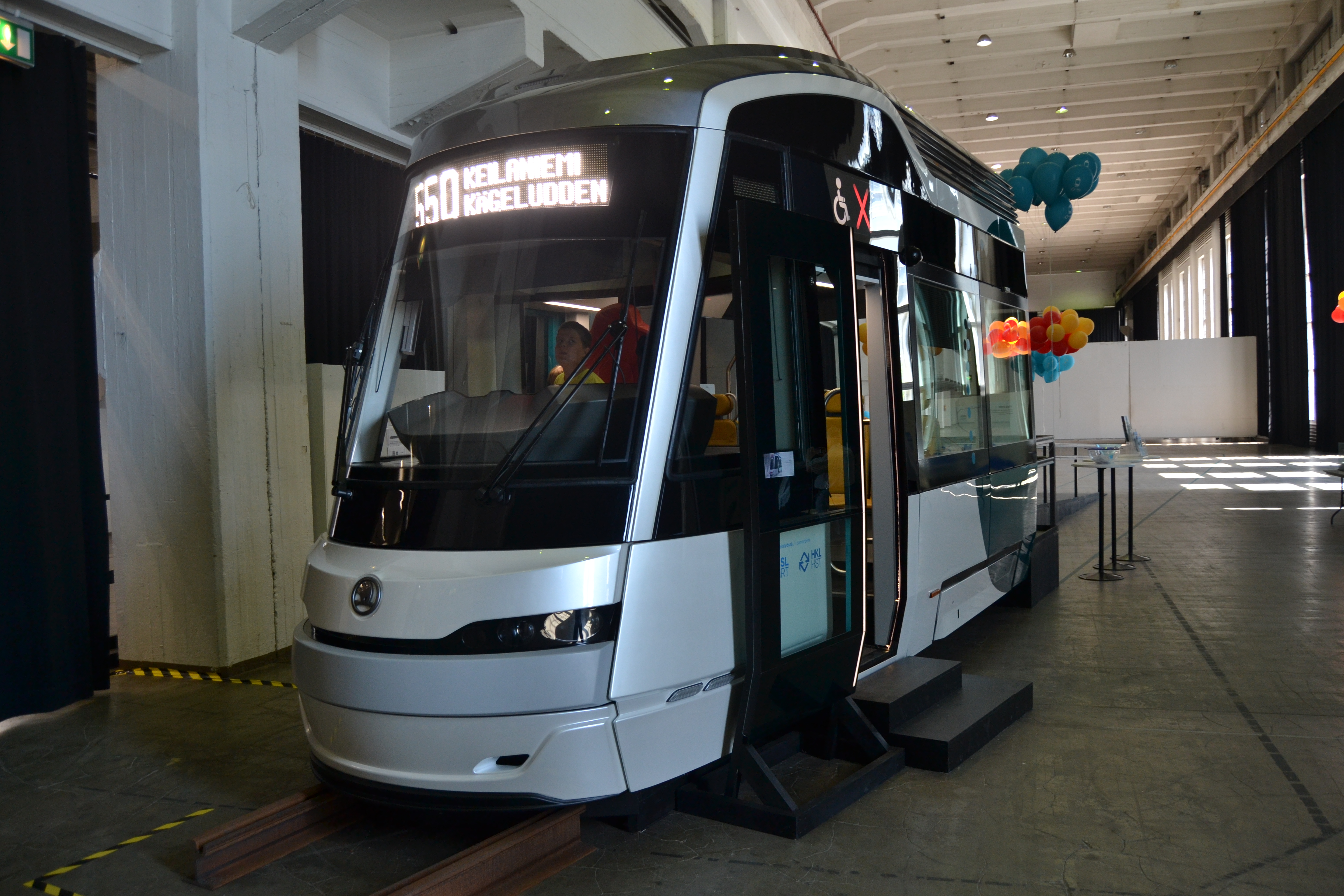 Mock-up of Artic XL tram in Kaapelitehdas, Helsinki